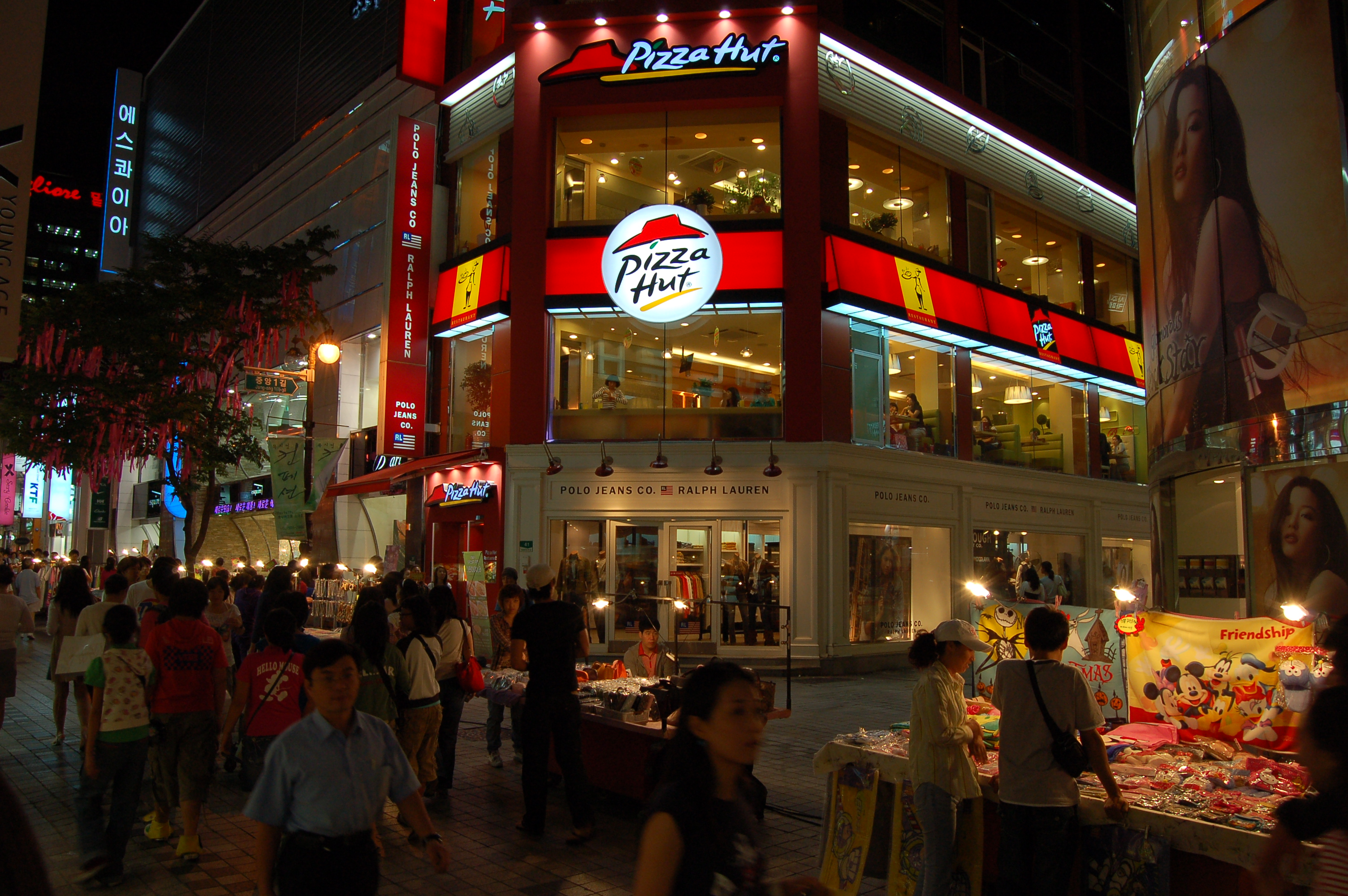 Various places around Meyongdong at night time (South Korea)